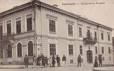 Cernăuți County Prefecture, illustrated in an early 20th century picture.